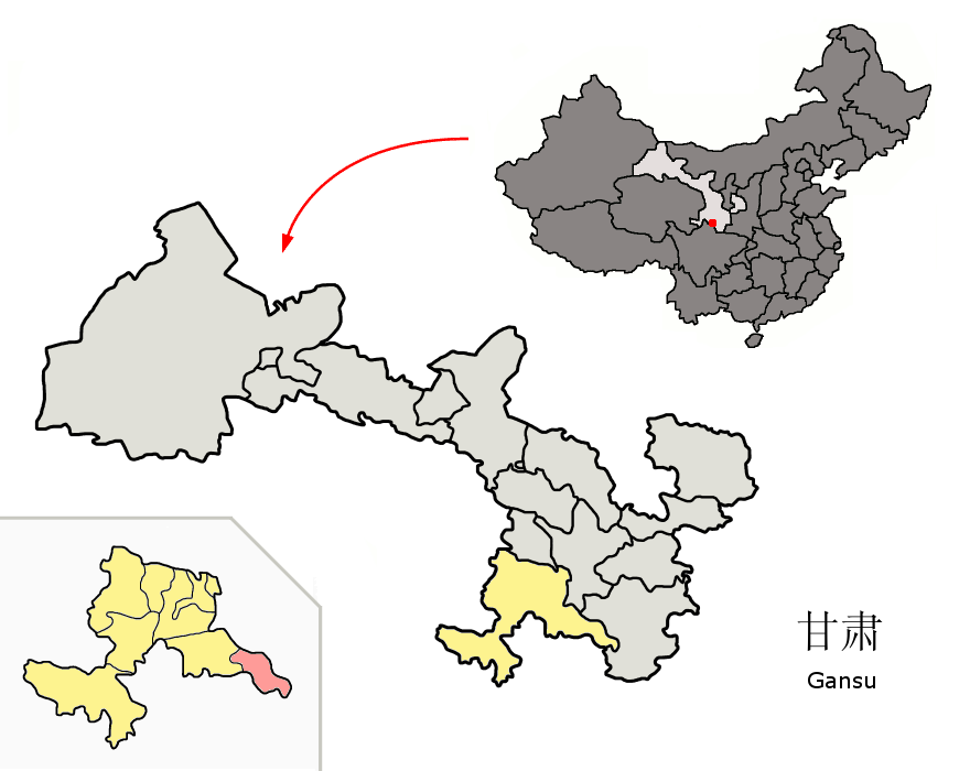 Location of Zhugqu County (pink) and Gannan Prefecture (yellow) within Gansu province of China Map drawn in september 2007 using various sources, mainly : Gansu province administrative regions GIS data: 1:1M, County level, 1990 Gansu Counties map from